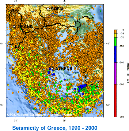 Seismicity in Greece 1990-2000 by magnitute and depth.